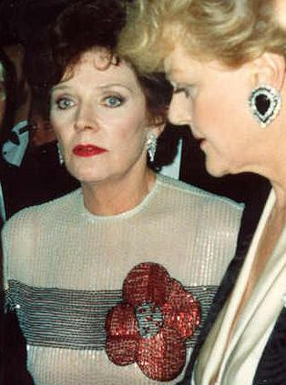 Polly Bergen and Angela Lansbury at the 1989 Emmy Awards.